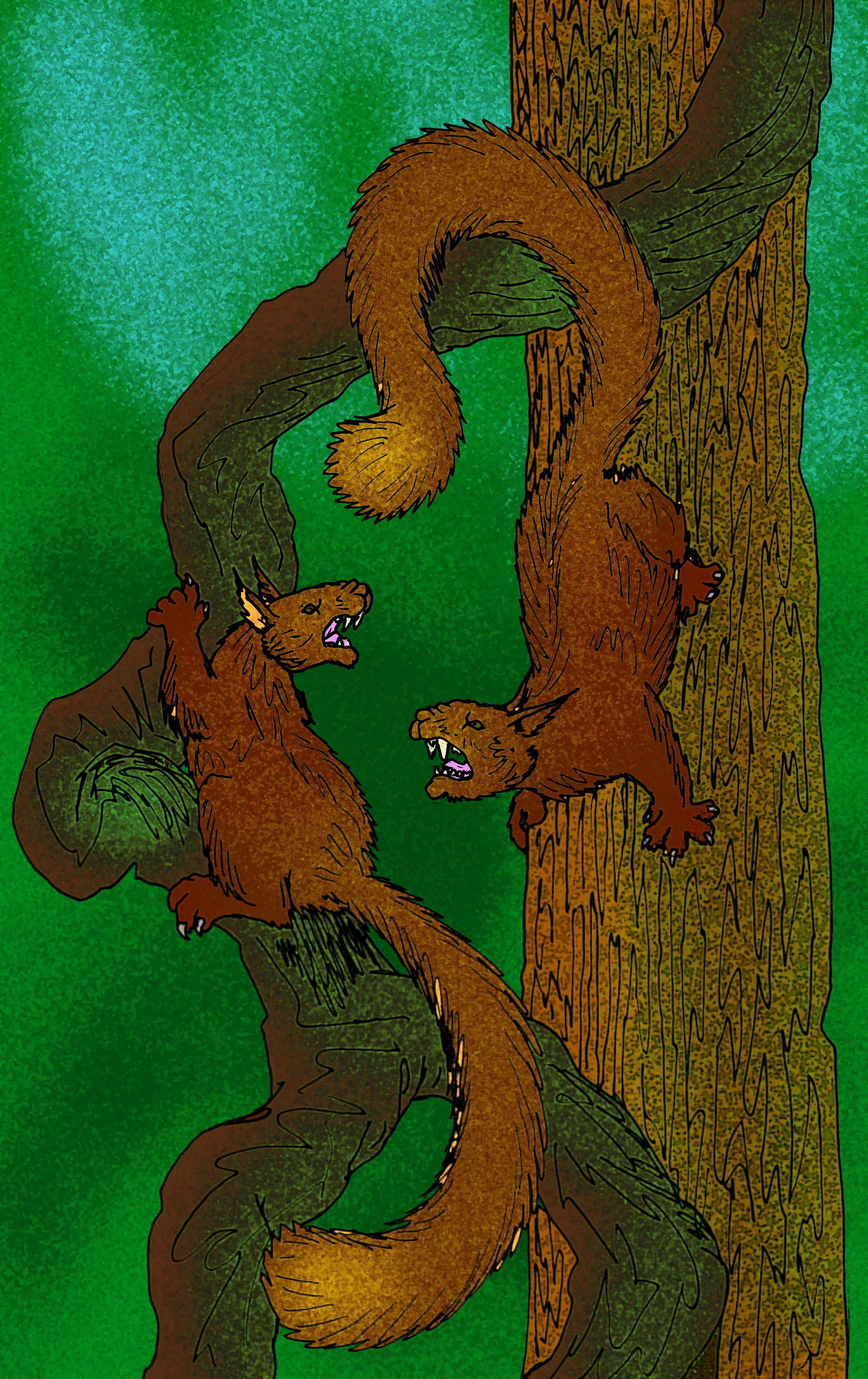 My reconstruction of the Eocene cimolestid Kopidodon macrognathus